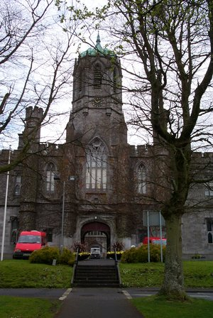 Quadrangle, National University of Ireland, Galway. Photo: Joe Desbonnet, April 2000.